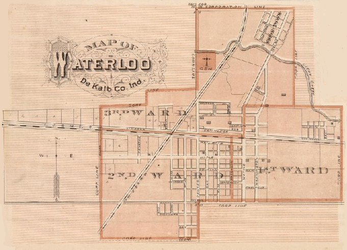 Excerpt of map from Andreas, Alfred T. (1876). Illustrated Historical Atlas of the State of Indiana, Baskin, Forster, Co., Chicago.